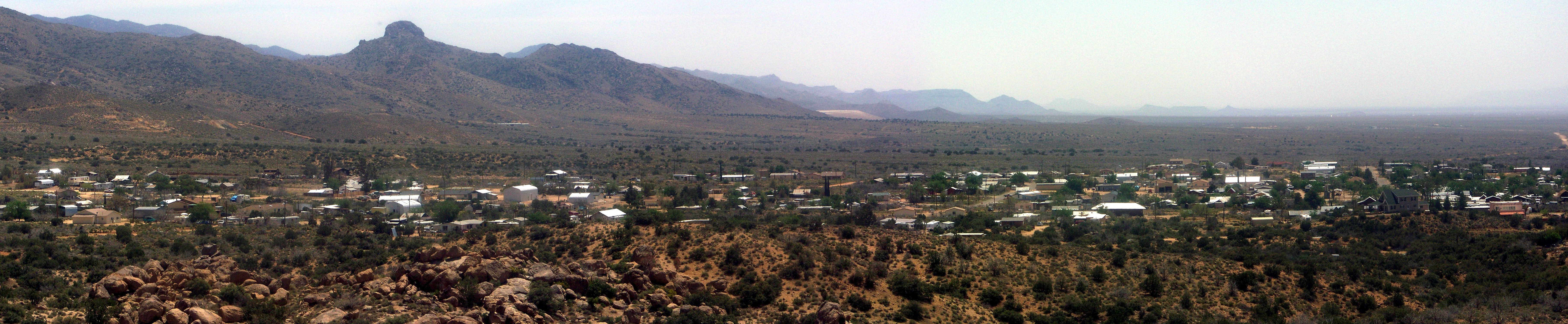 Panoramic view of Chloride, Arizona, as seen from a nearby granite outcrop.